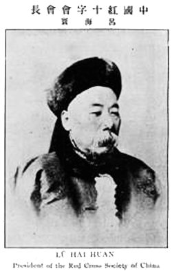 Lü Haihuan